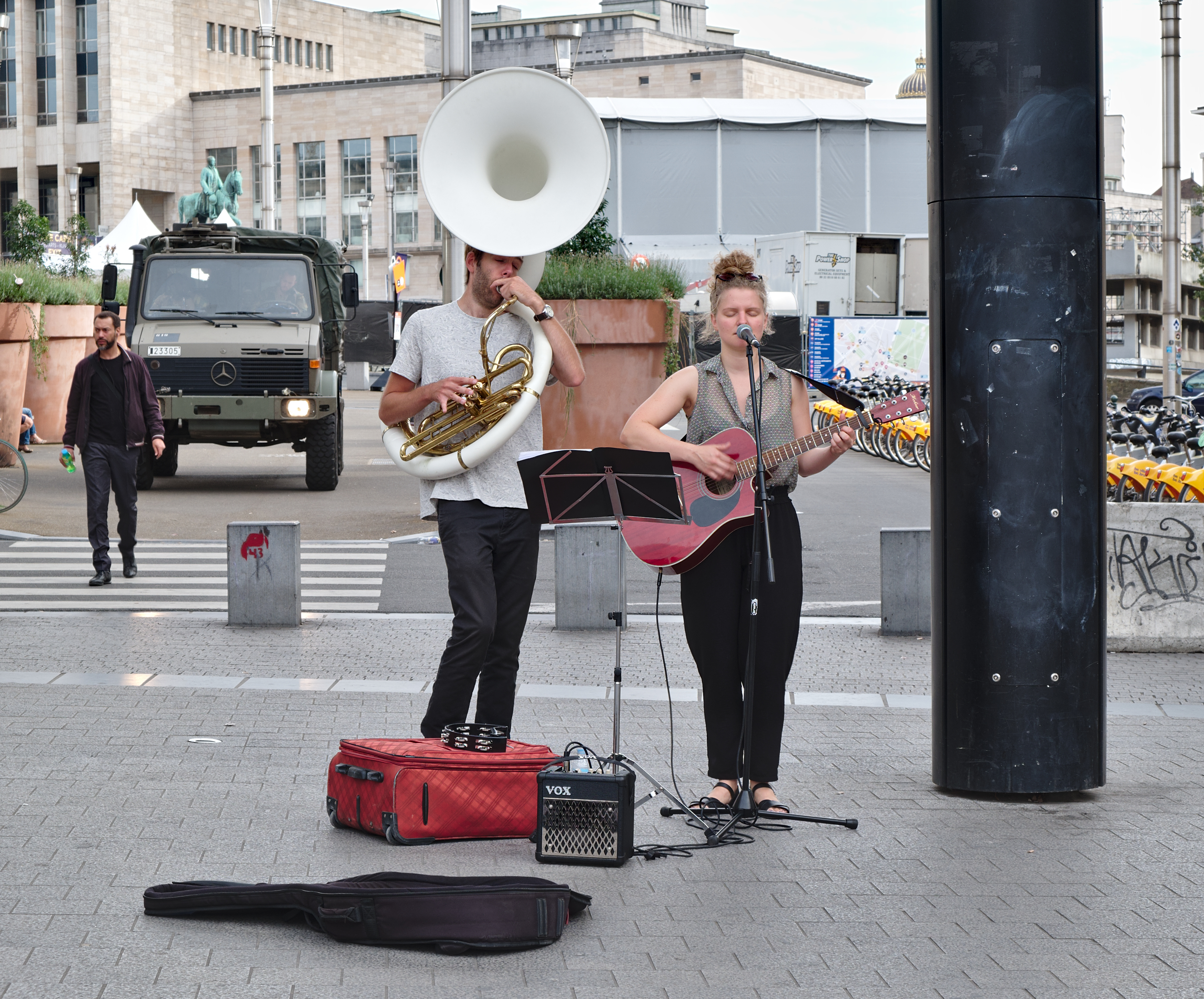 Street performers on Carrefour de l'Europe, Brussels, BE: man playing a sousaphone and woman playing the guitar. This photo of immaterial heritage has been taken in the Brussels Capital Region